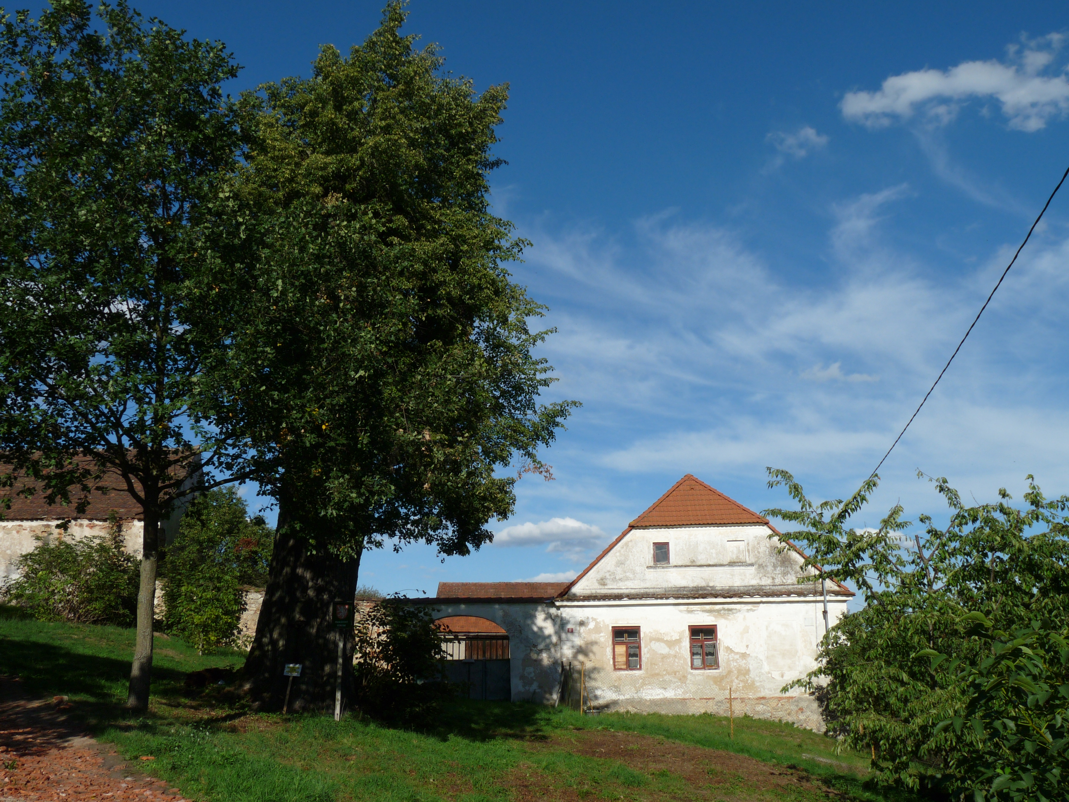 House No 6 in the village of Mladovice,Benešov District, Central Bohemian Region, Czech Republic.